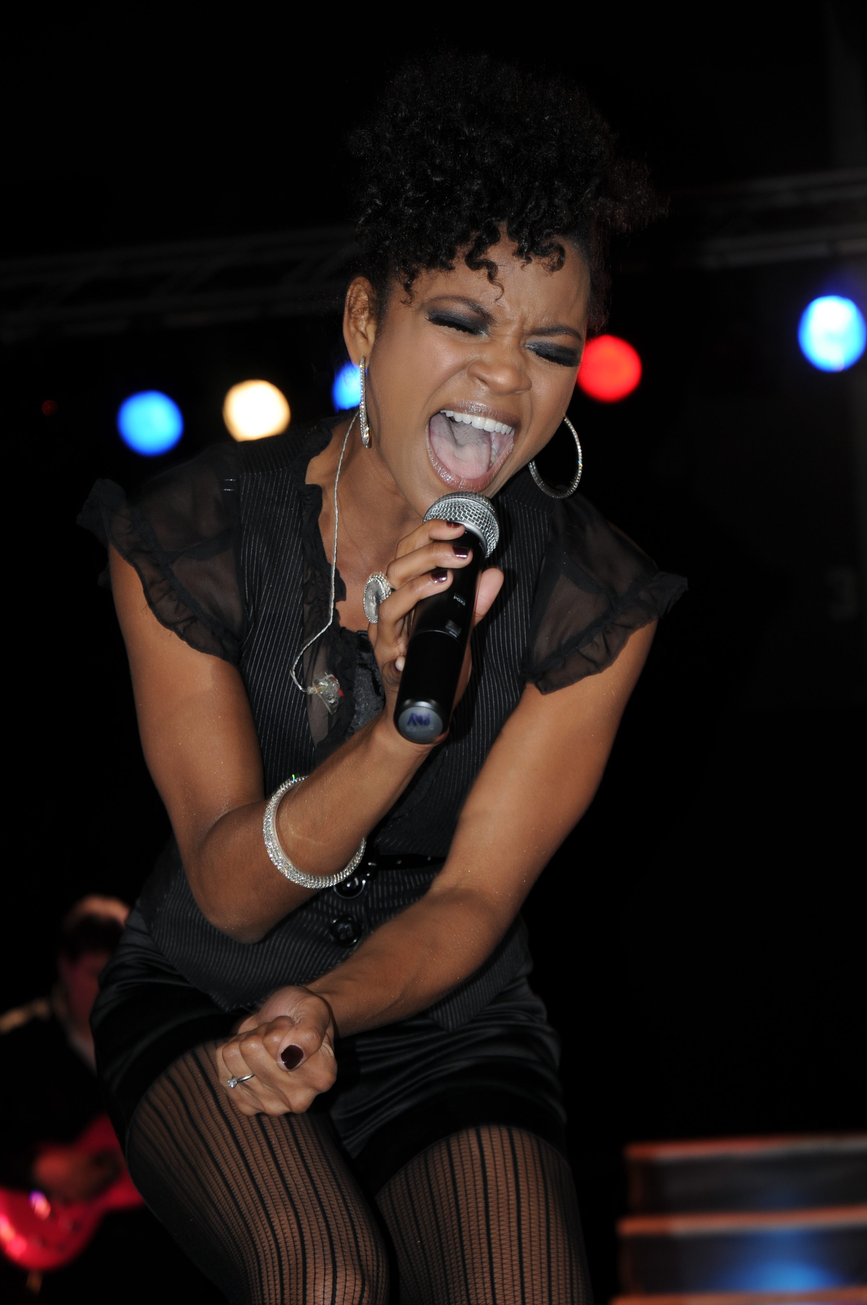 Syesha performs at her first concert in Sarasota, FL